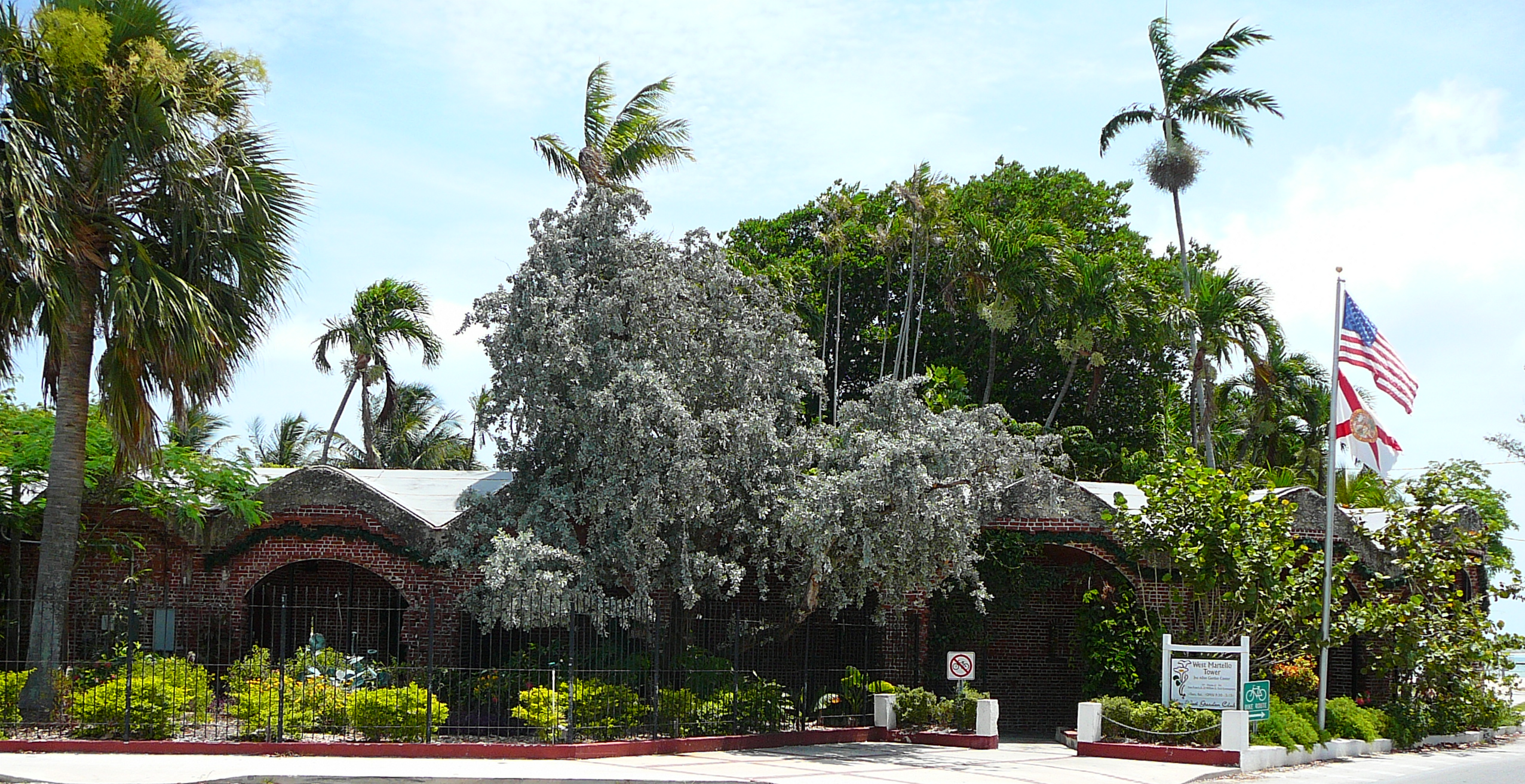 Digital photo taken by Marc Averette. West Martello Tower in Key West, Florida